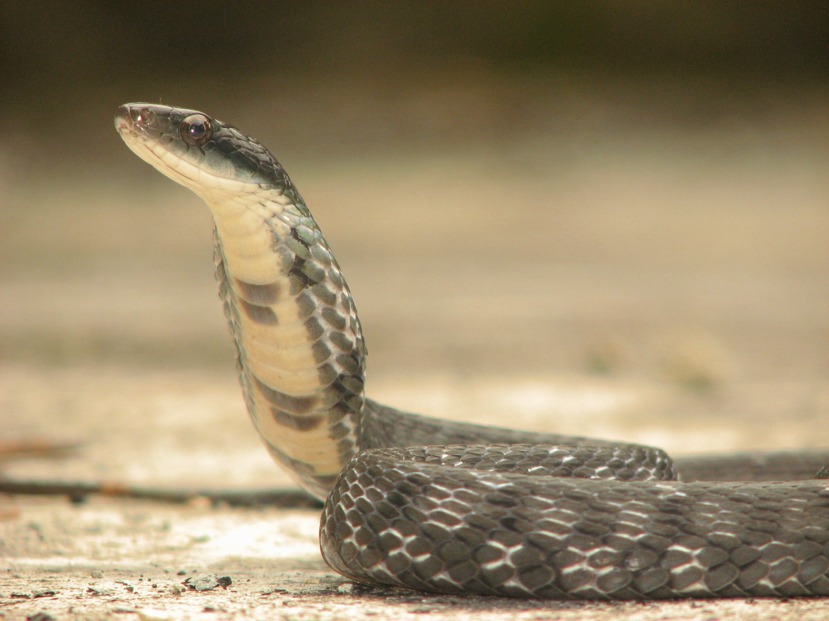 False Cobra Psuedoxenodon macrops in Sessni, Eaglenest Wildlife Sanctuary, Arunachal Pradesh, India